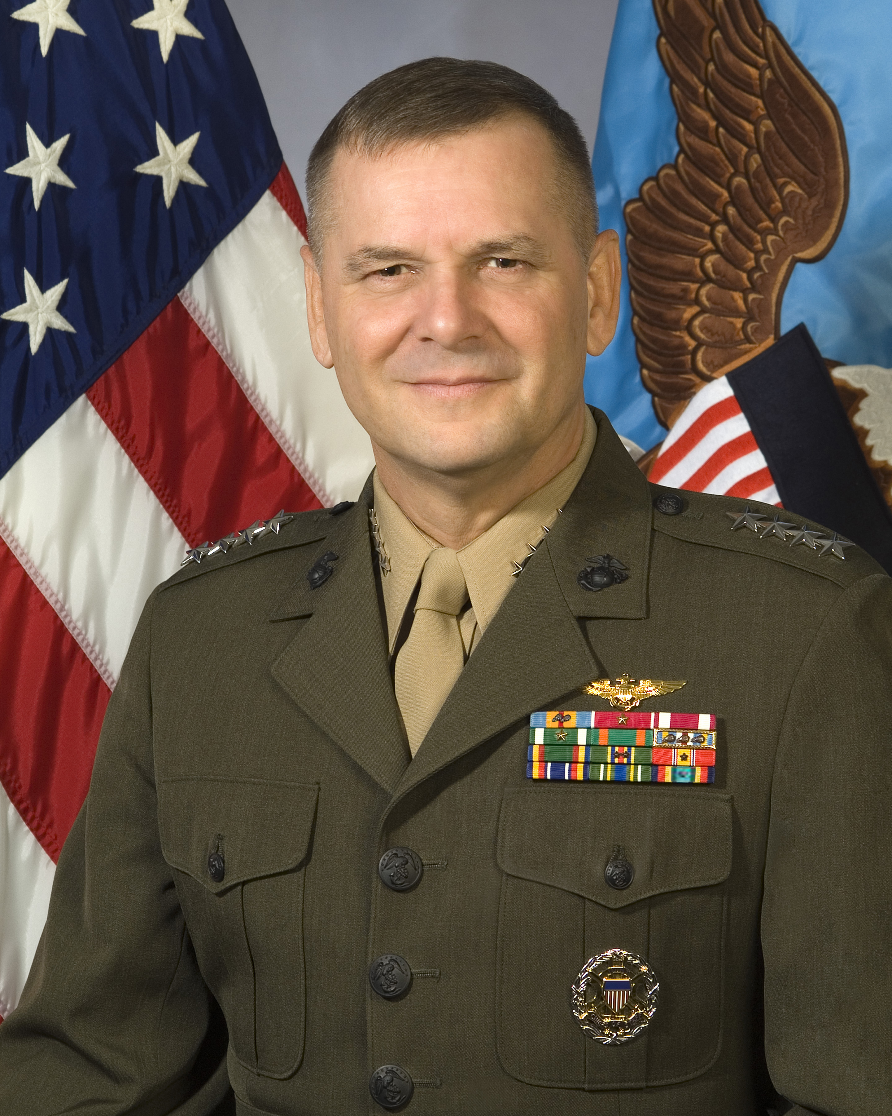 General James E. Cartwright, USMC, Vice Chairman of the Joint Chiefs of Staff